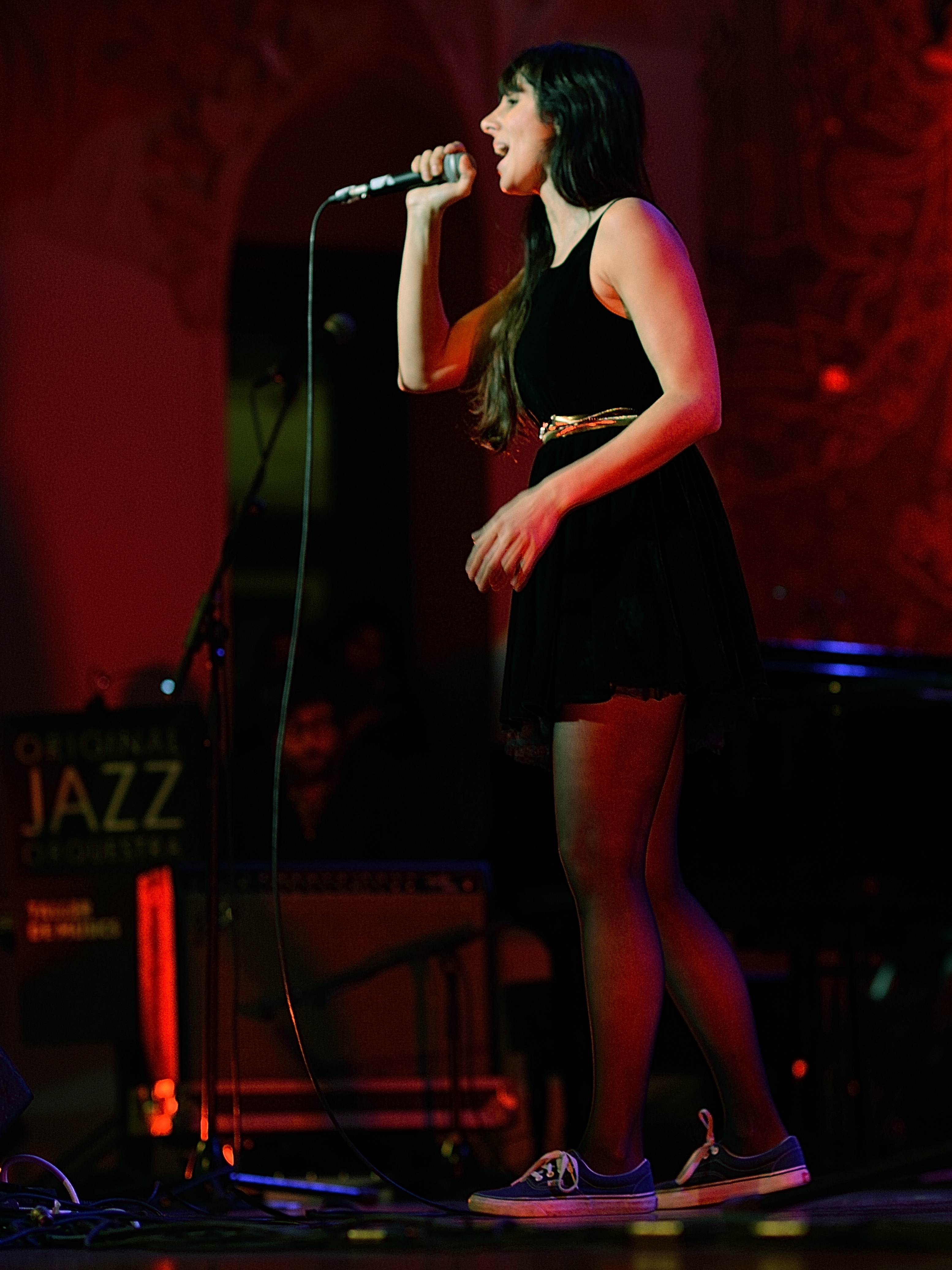 La Mala Rodriguez